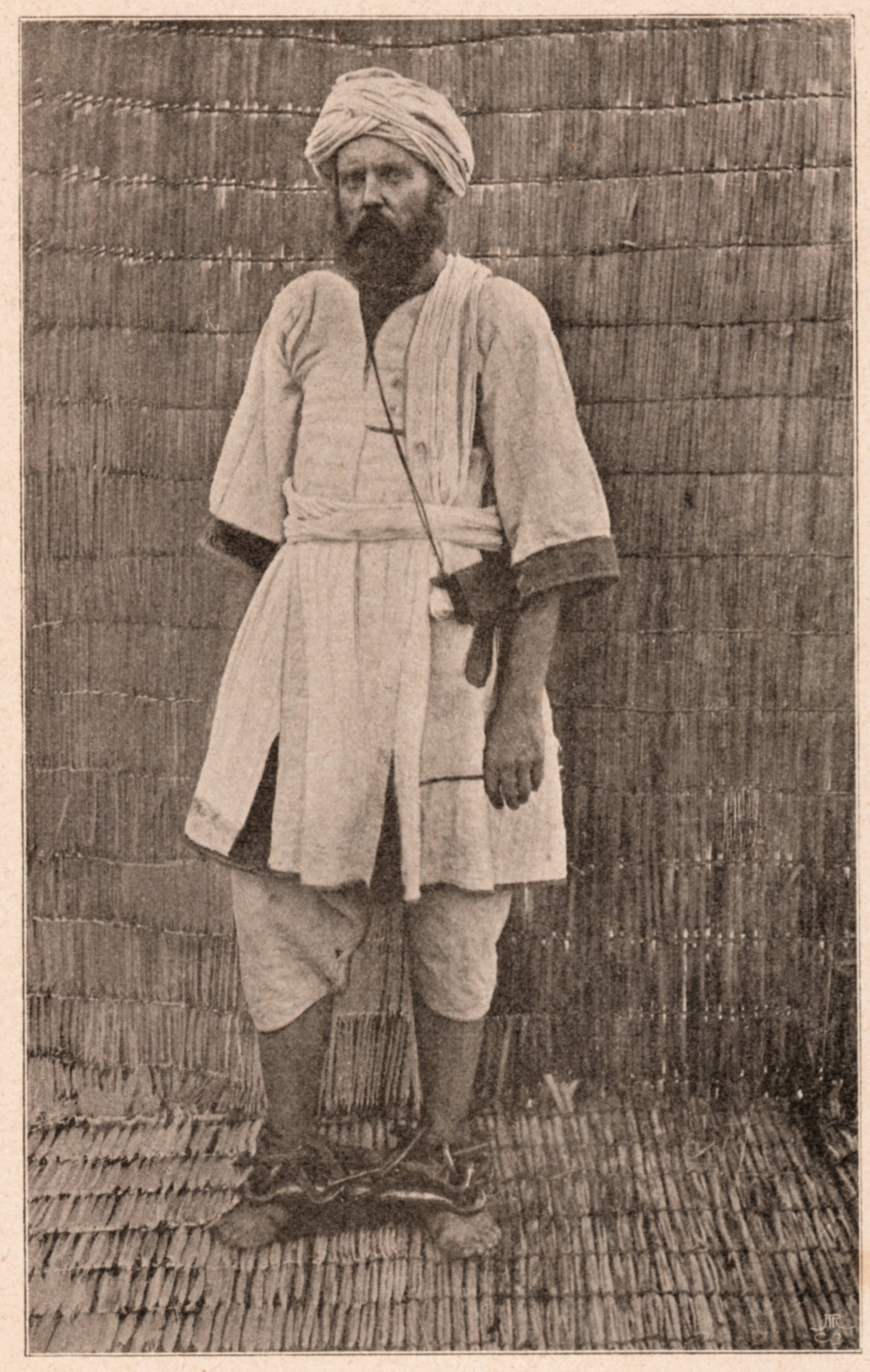 Neufeld as prisoner of the Mahdists